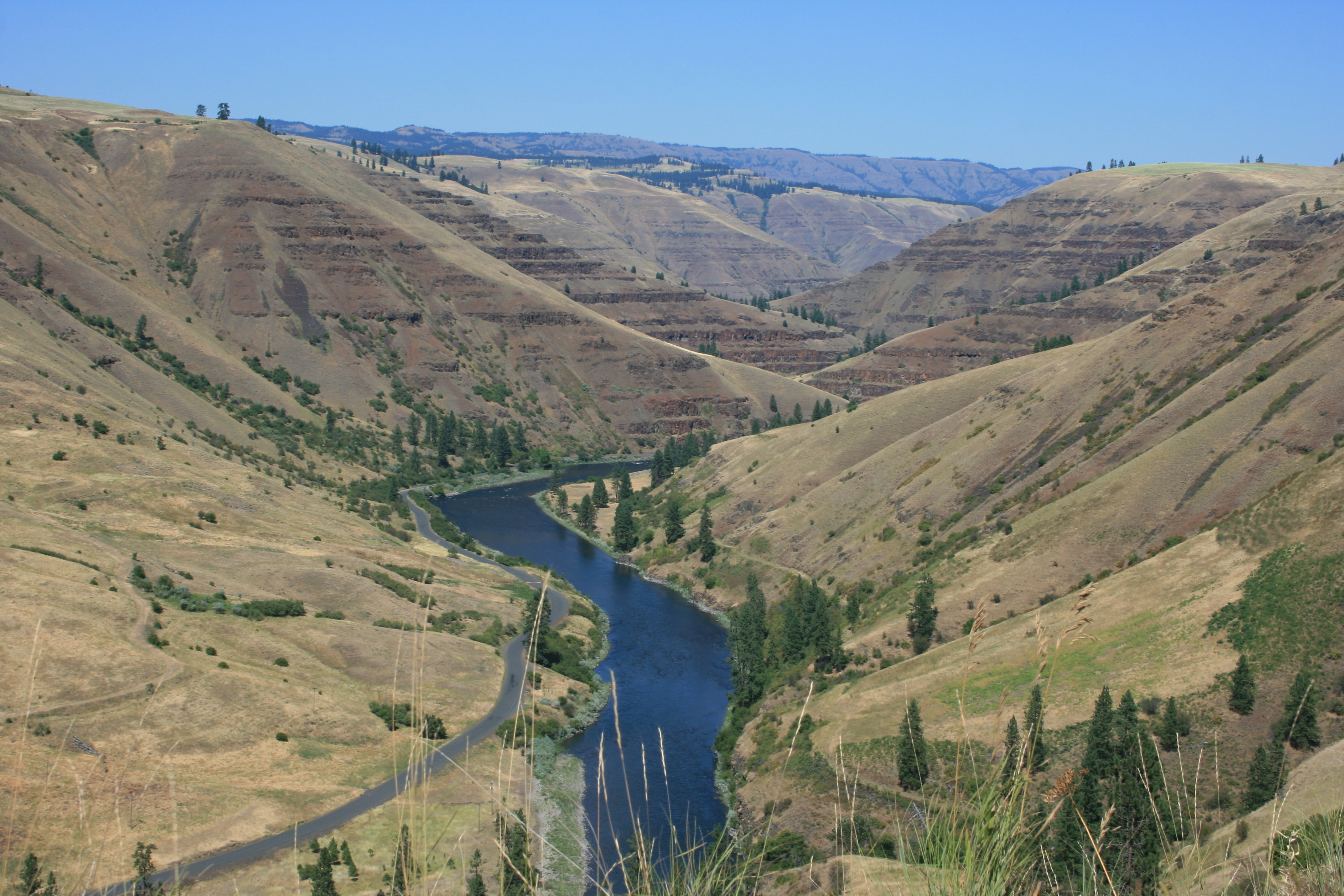 For use is in the Columbia River Basalt Group article. Photo shows the Grande Ronde flood basalt outcroppings along the Grande Ronde River in Oregon. Photo taken August 6th, 2011 by uploader. Skål - Williamborg (talk) 05:05, 8 August 2011 (UTC)